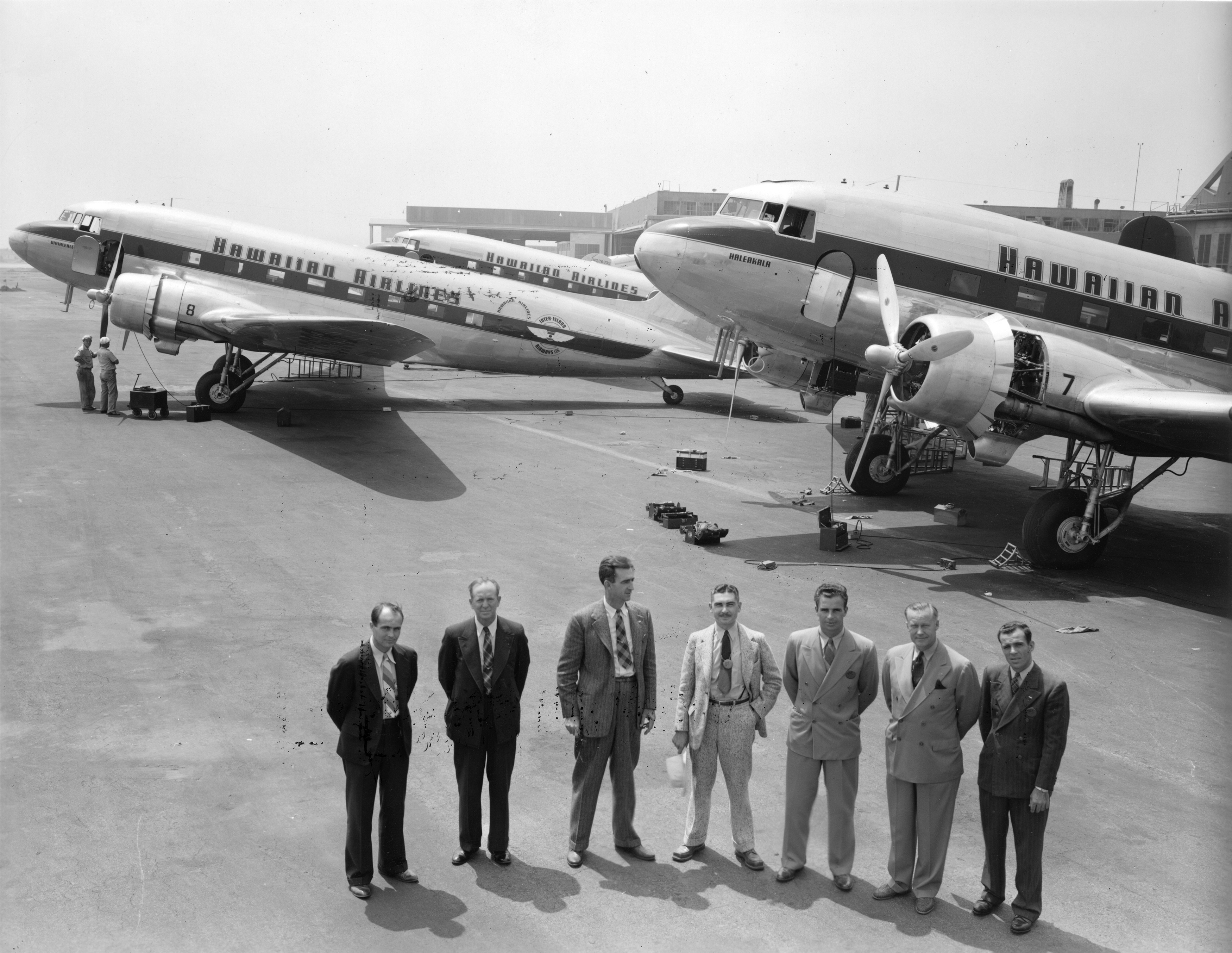 In 1941 Inter-Island Airways introduced Douglas DC-3s to its fleet and changed the airline's name to Hawaiian Airlines. Douglas Aircraft Company personnel tasked with ferrying Hawaiian Airlines' new DC-3s from Oakland Field, Oakland, California, to John Rodgers Airport in Honolulu, Hawaii, pose in front of the three aircraft at Douglas Aircraft Company's Santa Monica, California, plant, sometime before the flight on August 27, 1941. Aircraft are, front to back: Douglas DC-3 "Haleakala" (fleet no. 7), Douglas DC-3 "Waialeale" (fleet no. 8), and Douglas DC-3 "Mauna Loa" (r/n N33606).